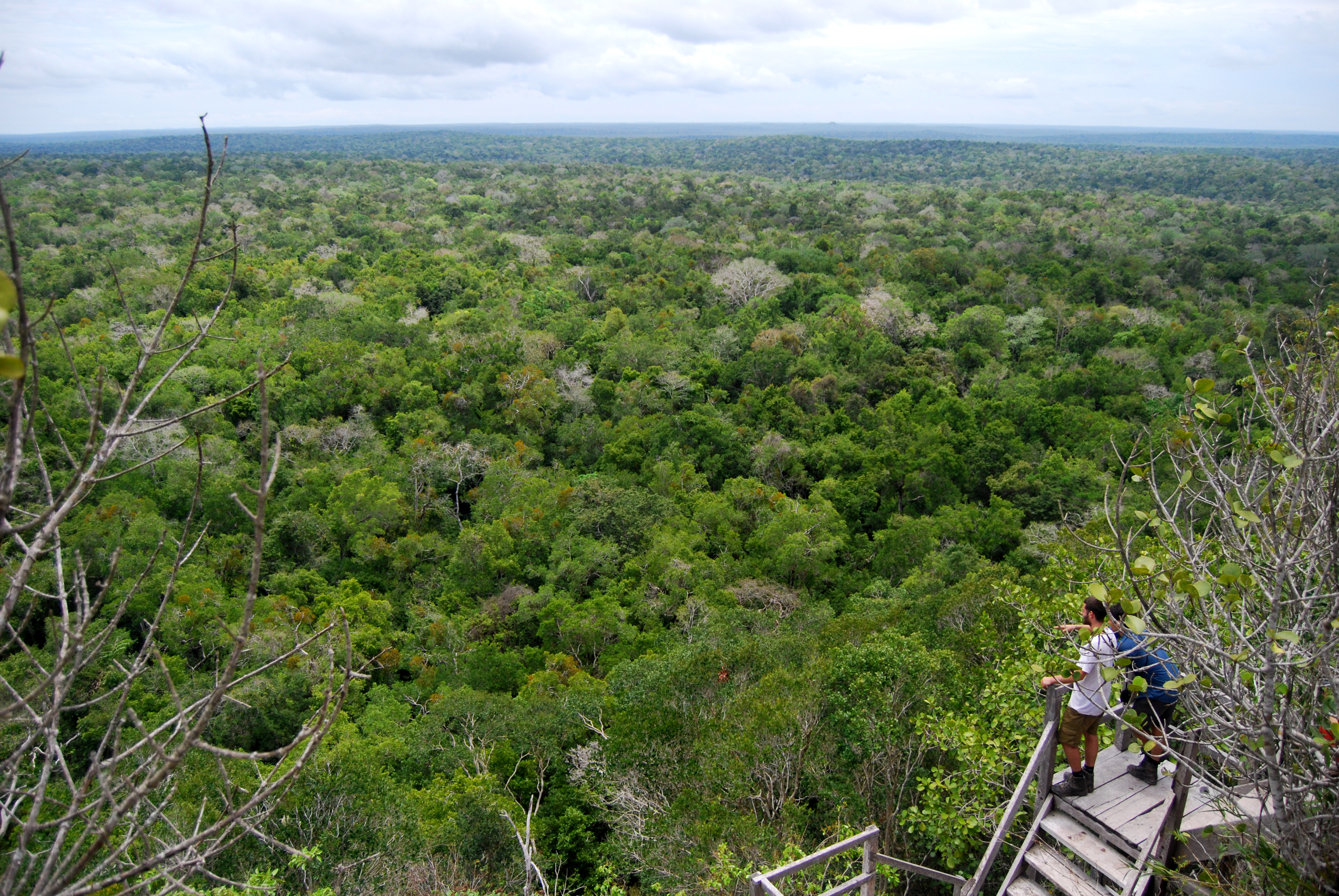 Looking out into the Petén rainforest, the largest such forest left north of the Amazon.